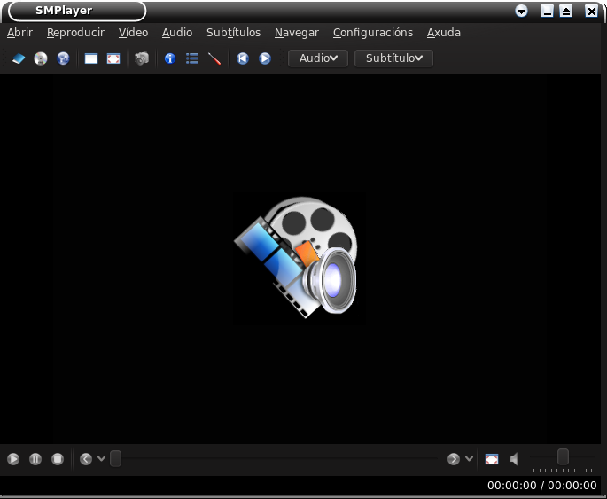 Screenshot of SMPlayer 0.6.5.1 with Galician locale.